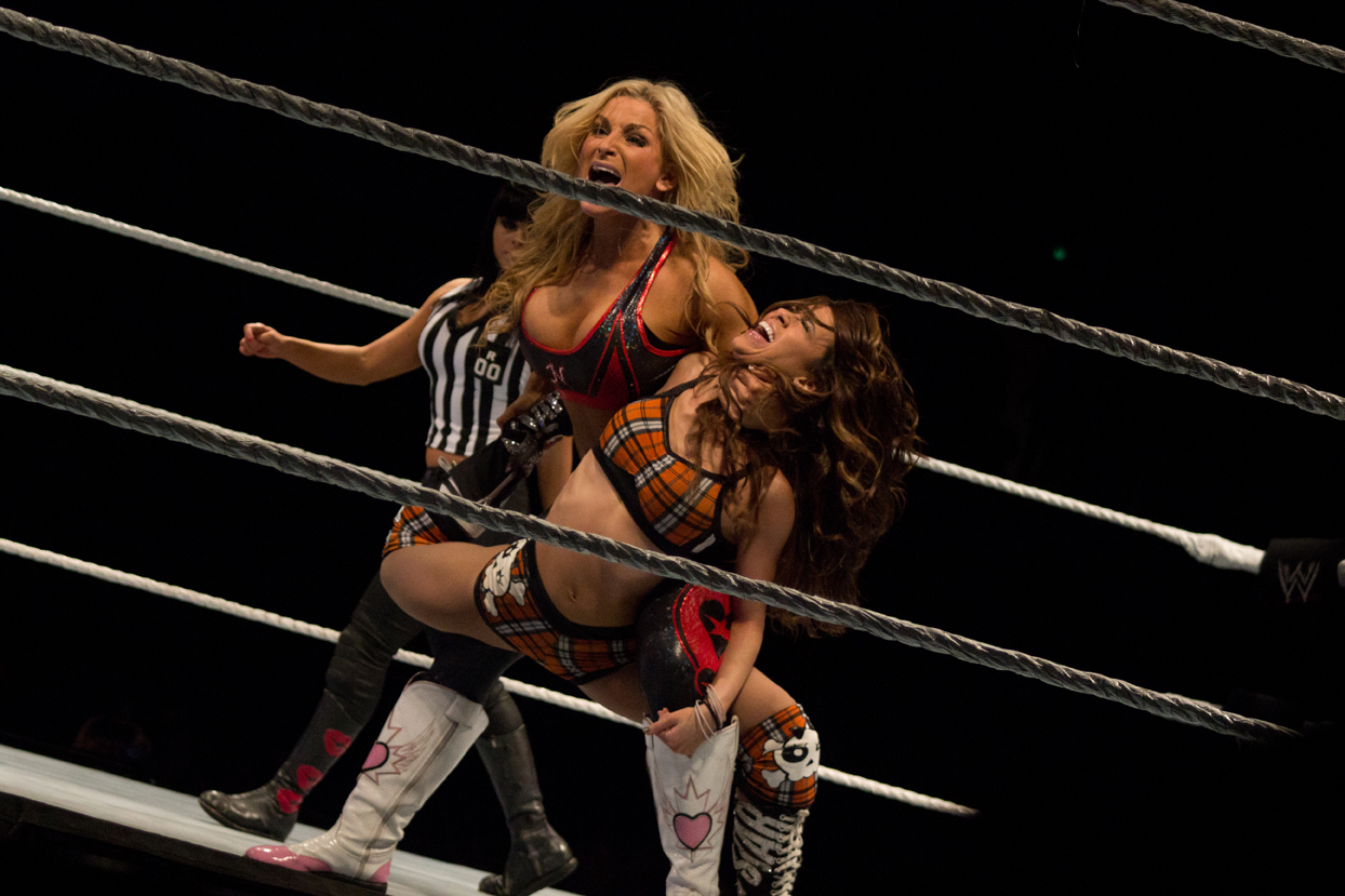 Natalya in action against AJ at a live SmackDown event